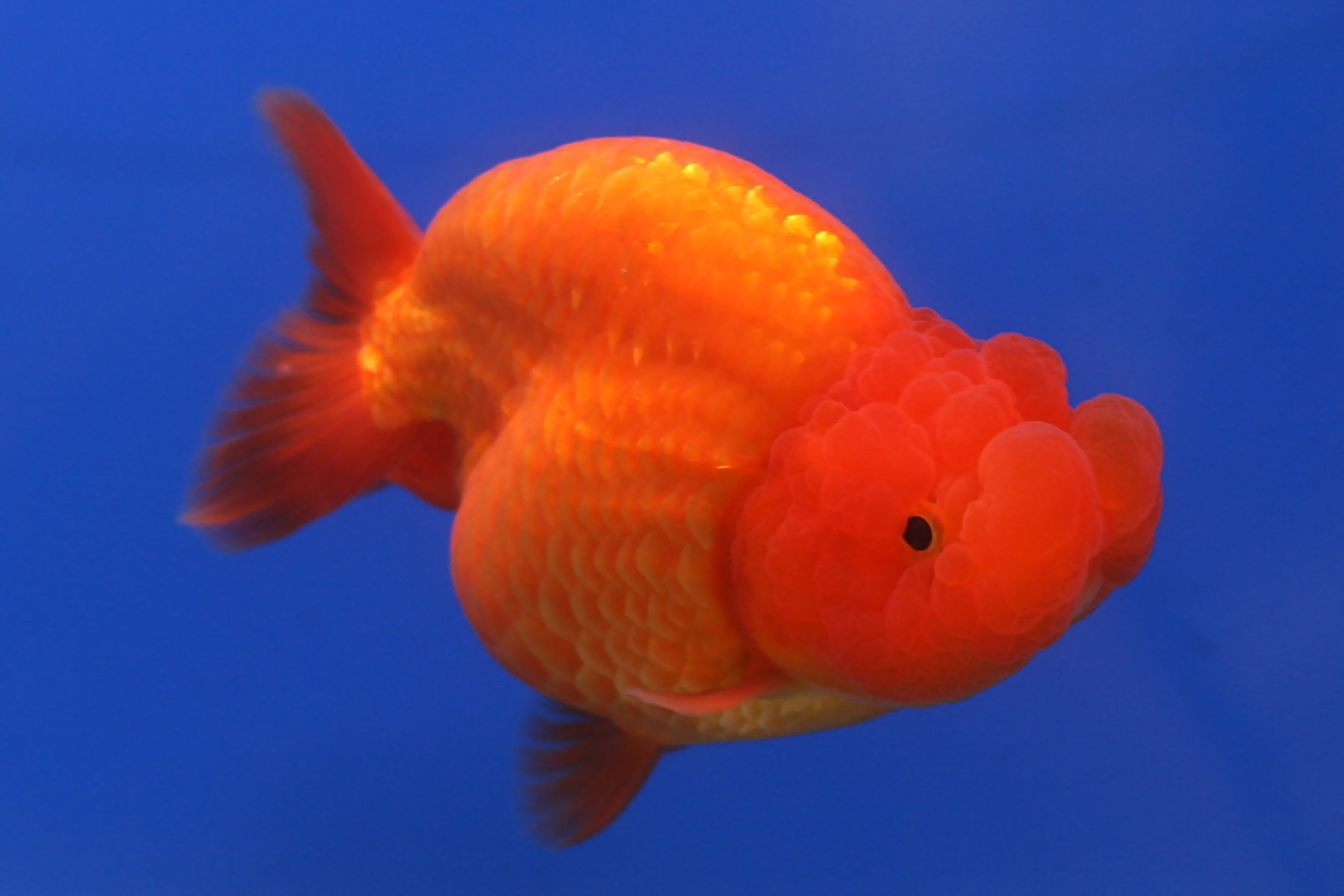 A Ranchu goldfish (Carassius auratus) from The 7th "Pramong Nomjai Thaituala" Thailand Tropical Fish Competition 2008.